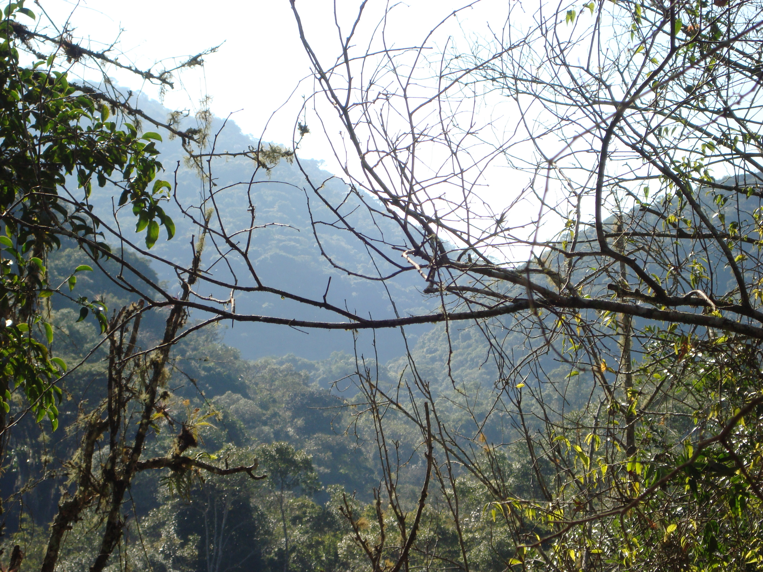 Amanhecer na Mata Atlântica